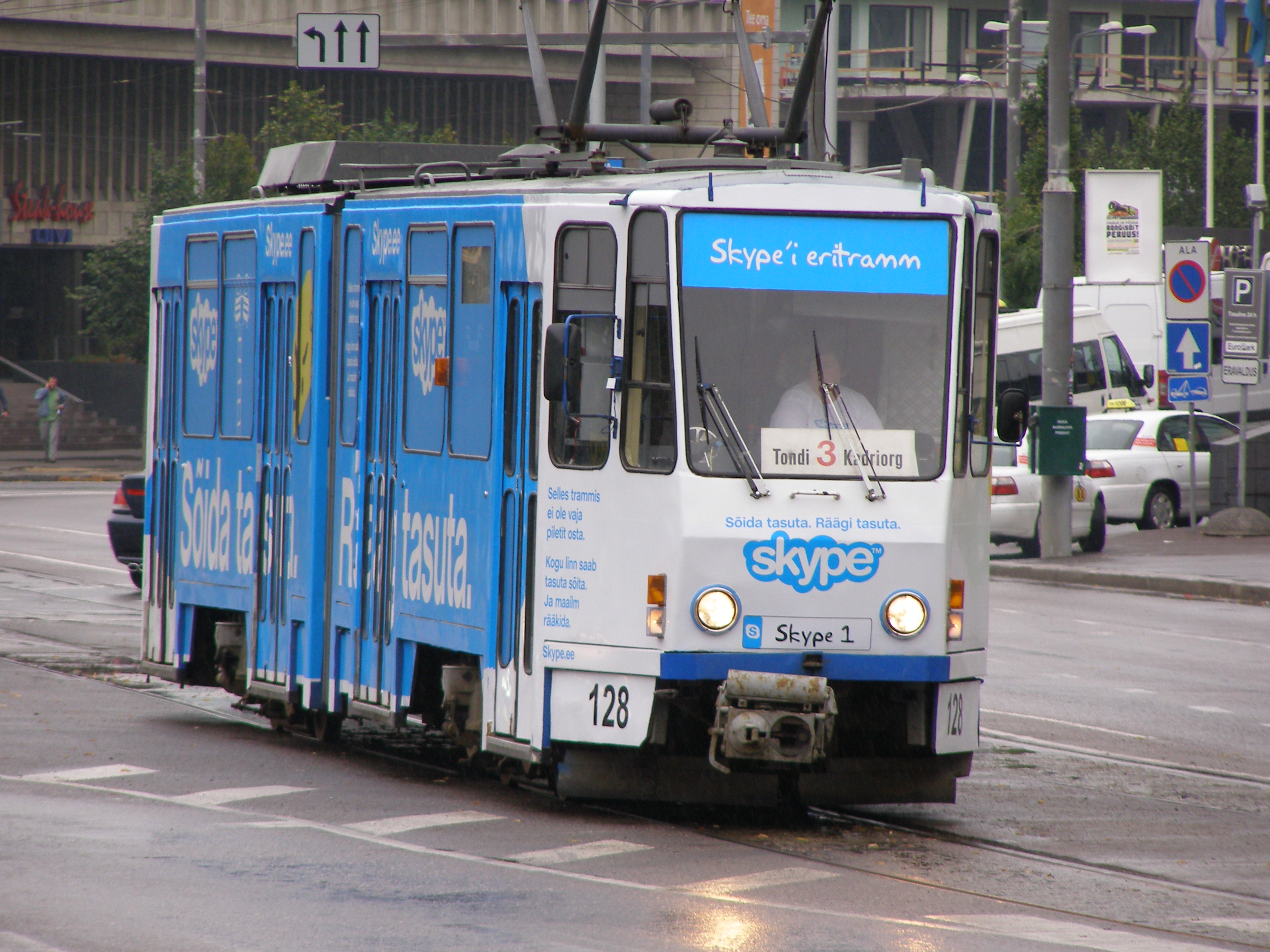 Tatra KT4D 128 in Tallinn, Estonia - the featured tram is Skype's Special Tram, where passengers could ride for free. (This was 6–7 seven years before the implementation of free public transport for residents registered in Tallinn.) The Tallinn Main Post Office is in the background.